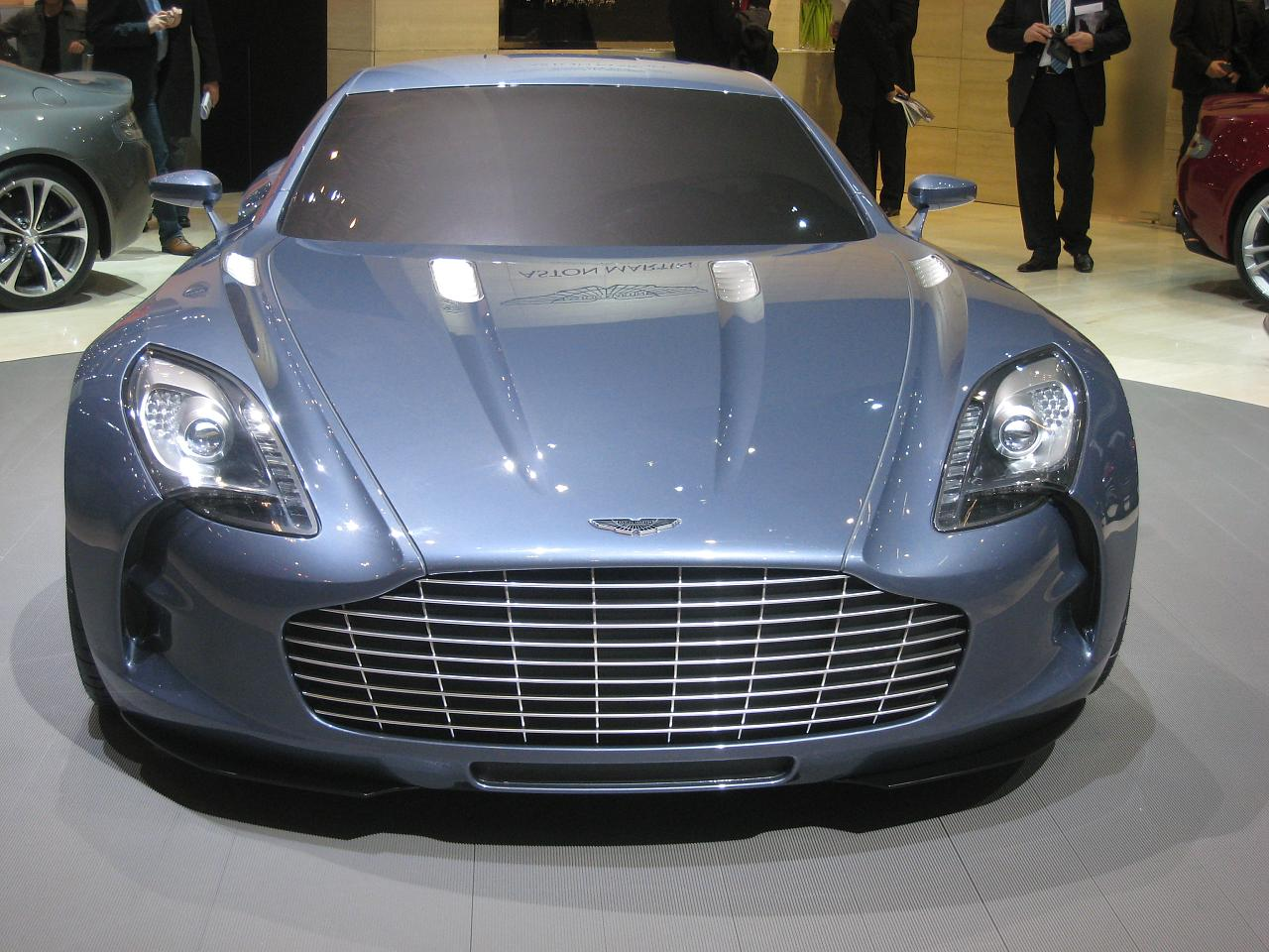 Aston Martin One-77 at the 2009 Geneva Auto Show